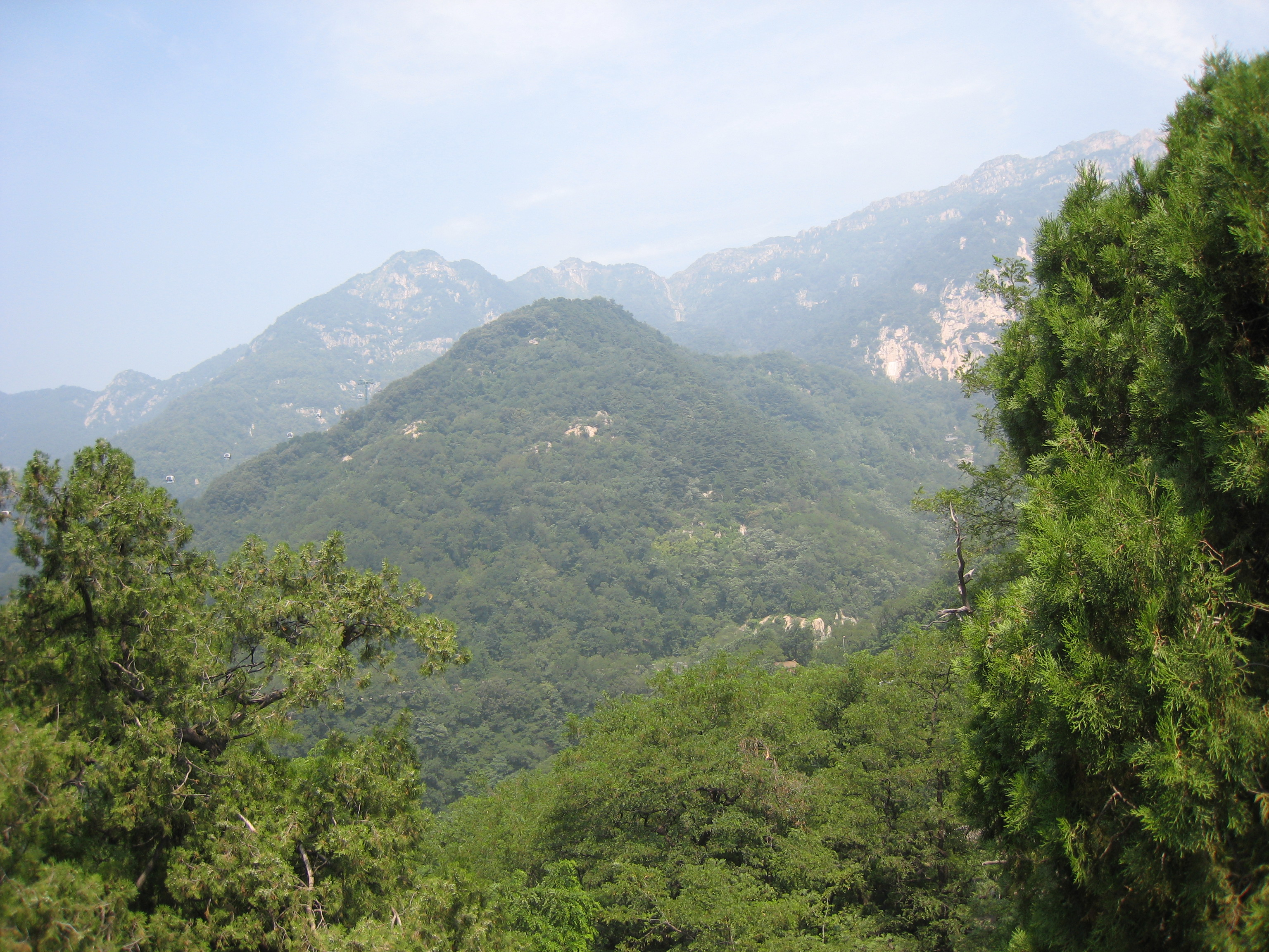 Taishan, Shandong